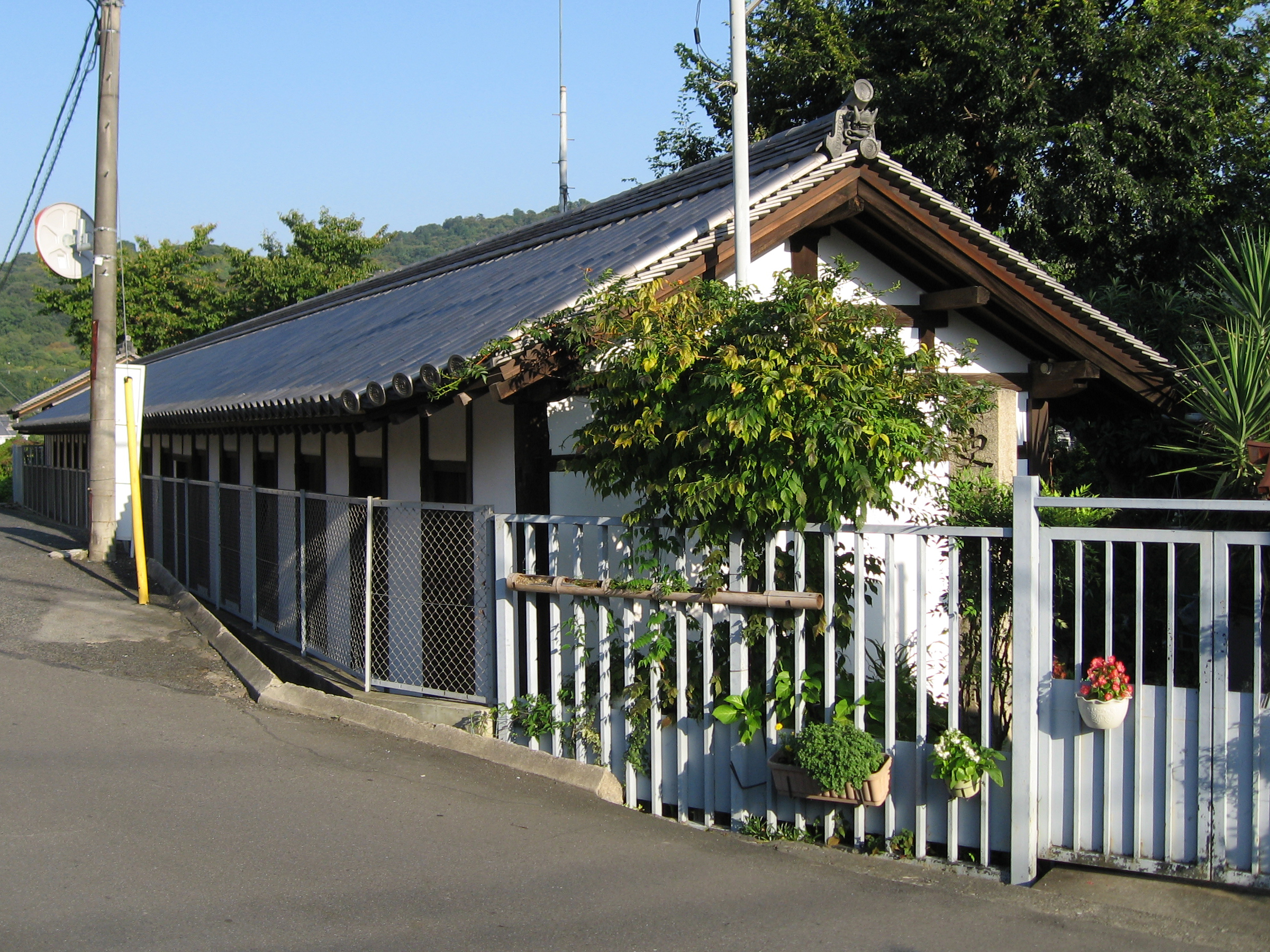 Kitayama-Jūhachikento is a Japanese historic spot, was a sanatorium for Hansen's disease patient or another serious case. In 1243, Ninshō (Buddhist priest of Saidai-ji) organized Kitayama-Jūhachikento. This architecture was built in early Edo period. Kawakami Nara, Nara Prefecture Japan.